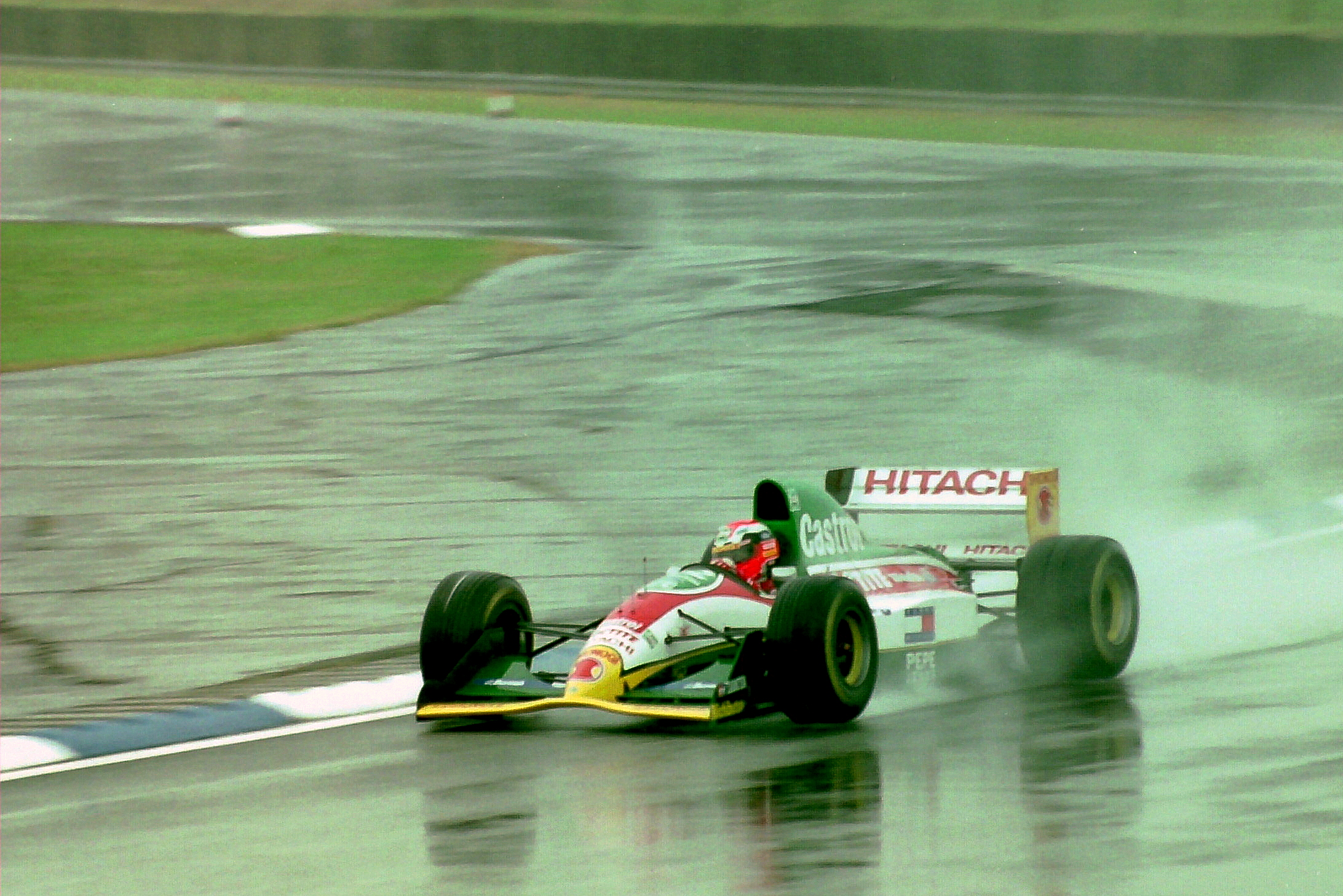 Johnny Herbert - Lotus 107B during practice for the 1993 British Grand Prix